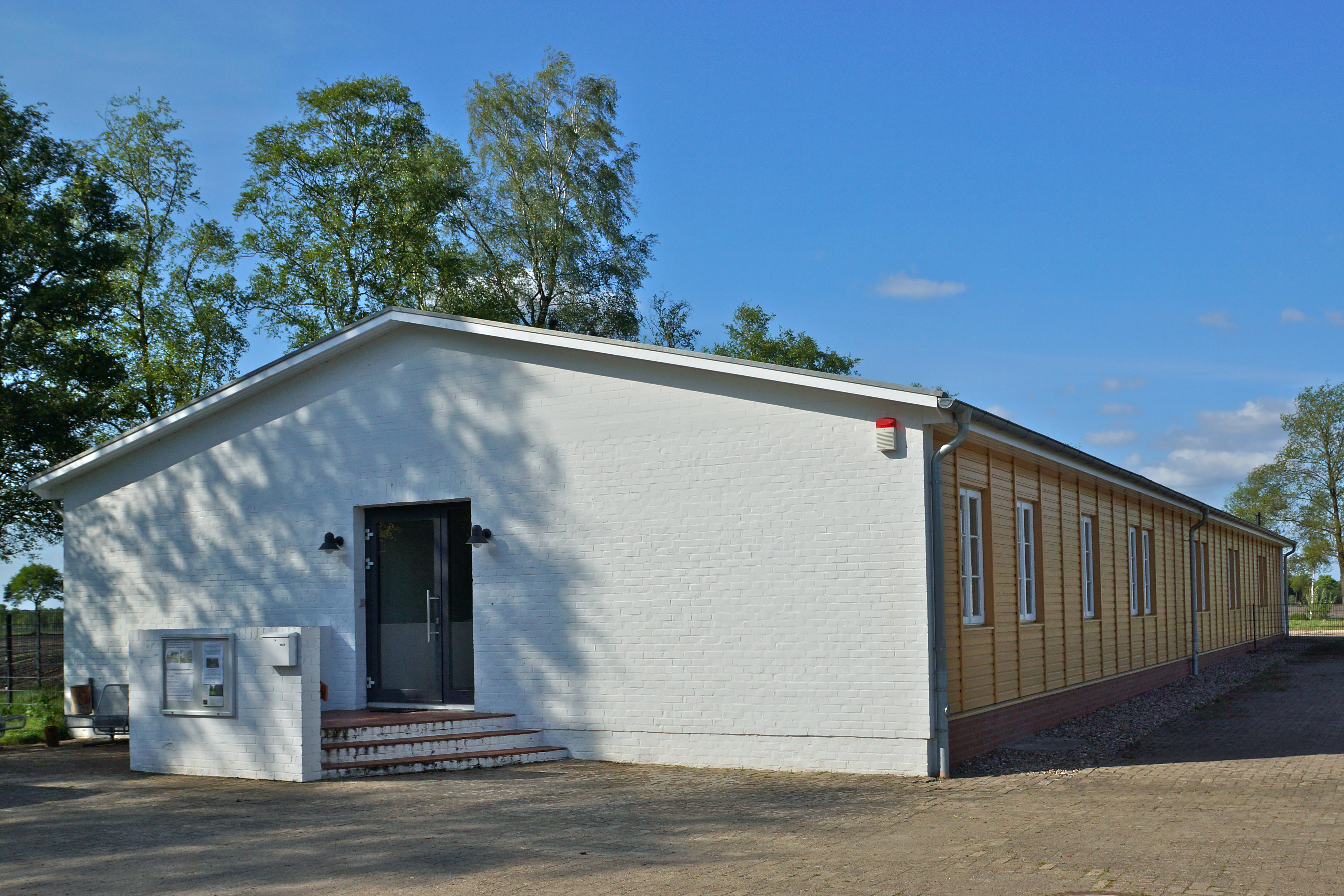 Selsingen (Sandbostel), Germany: Memorial for the Stalag X B